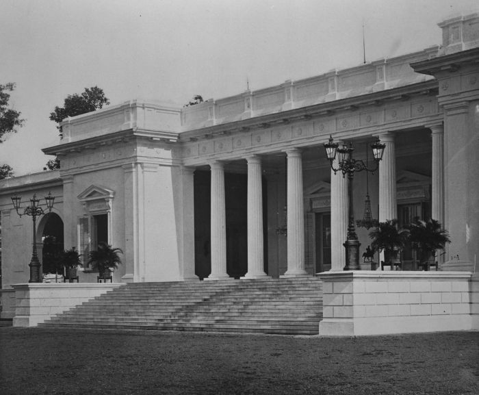 The palace of the governor-general at King's Square, Batavia